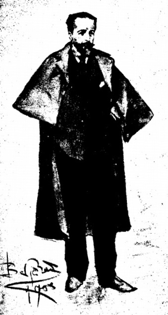 Marian VV